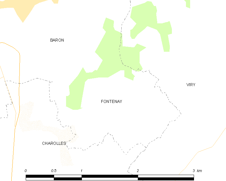 Map of French municipality